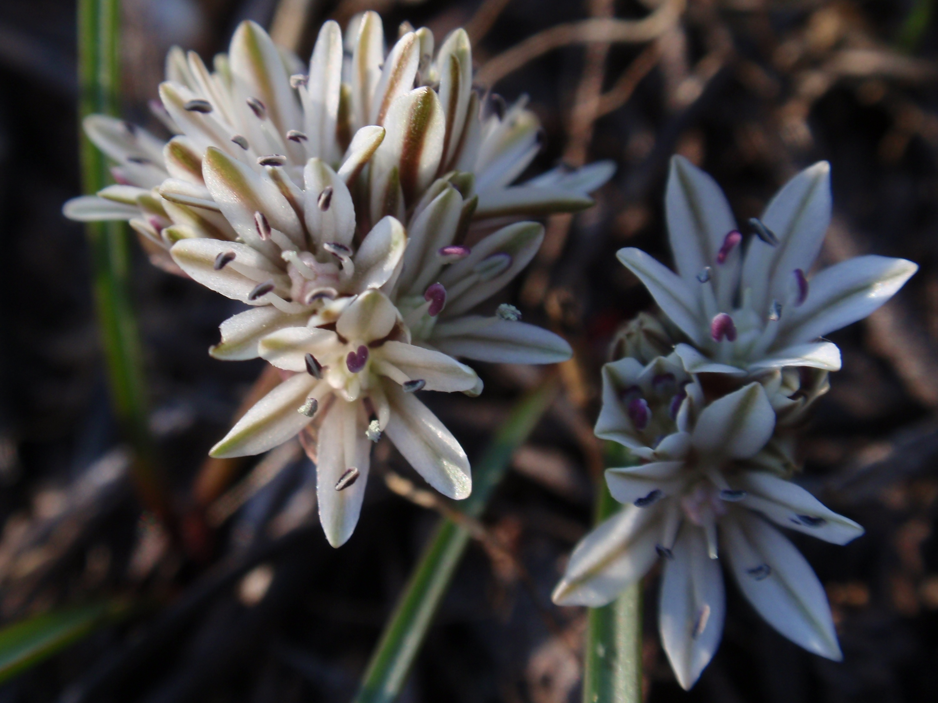 Red Sierra onion, subalpine onion (Allium obtusum). Carson Pass, Sierra Nevada